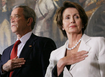 George Walker Bush, Nancy Pelosi. Croped version of